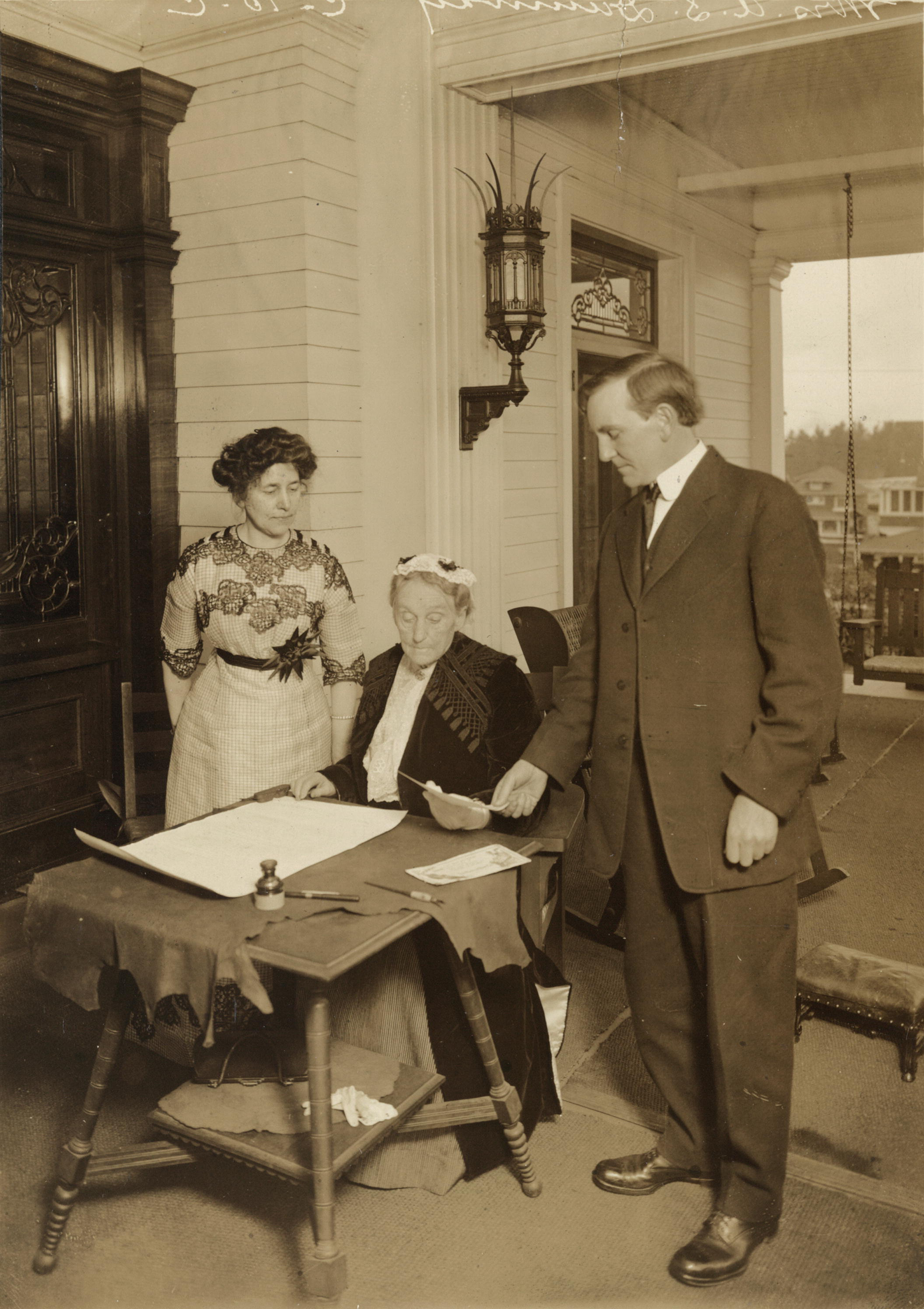 "Abigail Scott Duniway signing first Equal Suffrage Proclamation ever made by a woman. Oregon Governor Oswald West, who had signed the Proclamation is shown looking on, and acting President Dr. Viola M. Coe is standing near." Call Number: Location: National Woman's Party Records, Group I, Container I:150, Folder: Duniway, Abigail Scott Part of: Records of the National Woman's Party Repository: Library of Congress, Manuscript Division, Washington, D.C. 20540 USA LOC digital ID: mnwp 150003